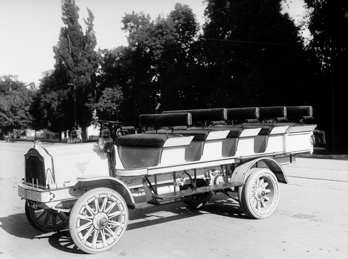 1913 Packard truck series A Mountain Wagon (Char-à-Banc), Salt Lake City, Utah Commercial photo taken on assignment, published circa 1913. PhotographerShipler Commercial Photographers; Shipler, Harry